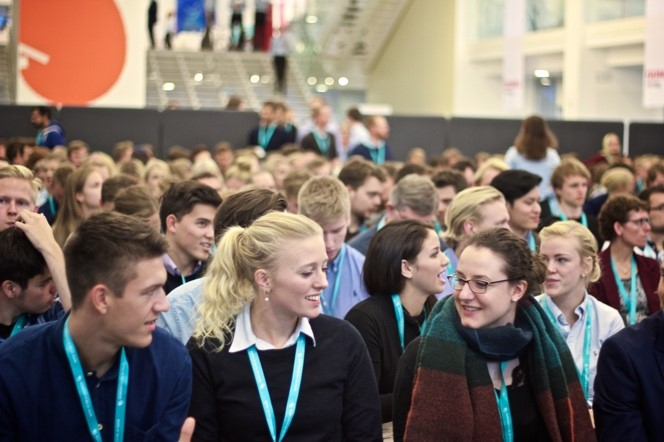 The audience at Battle of the Economists